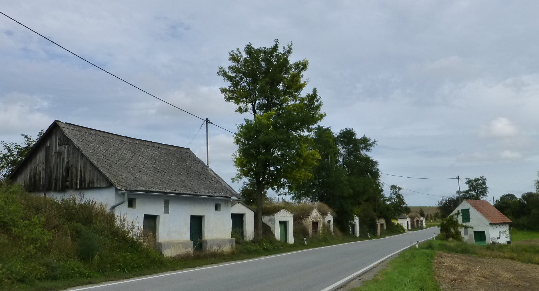 Wine cellars near Loidesthal (Zistersdorf), Lower Austria. The road between Niedersulz and Zistersdorf.